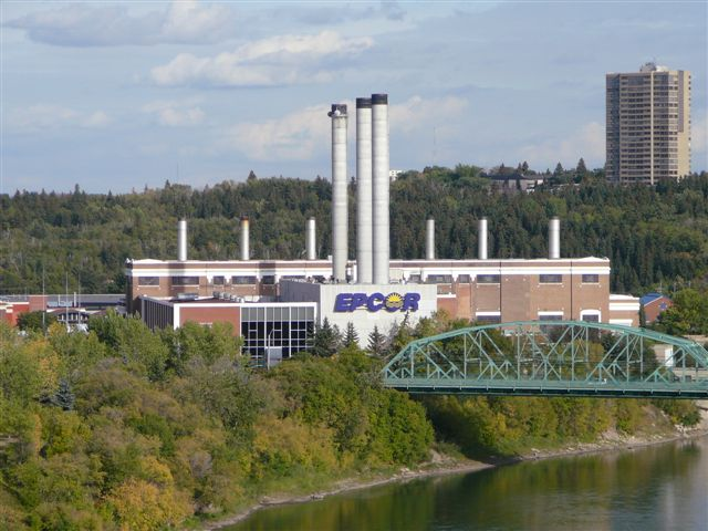 I took this picture on September 10, 2007.